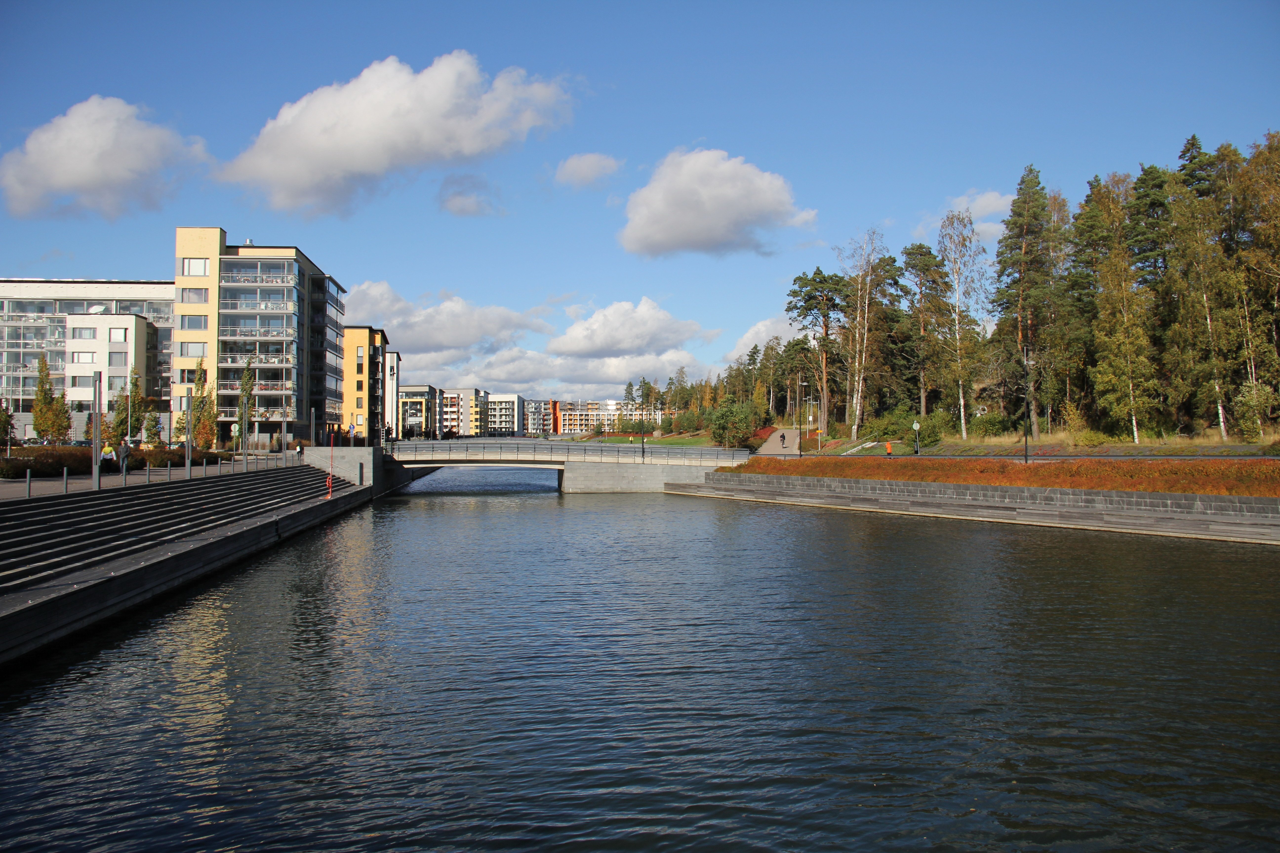 Uutela Canal, Aurinkolahti, Vuosaari, Helsinki, Finland. Lover part of canal and Uutela Bridge. Photo taken northward from Urheilukalastajansilta Bridge.